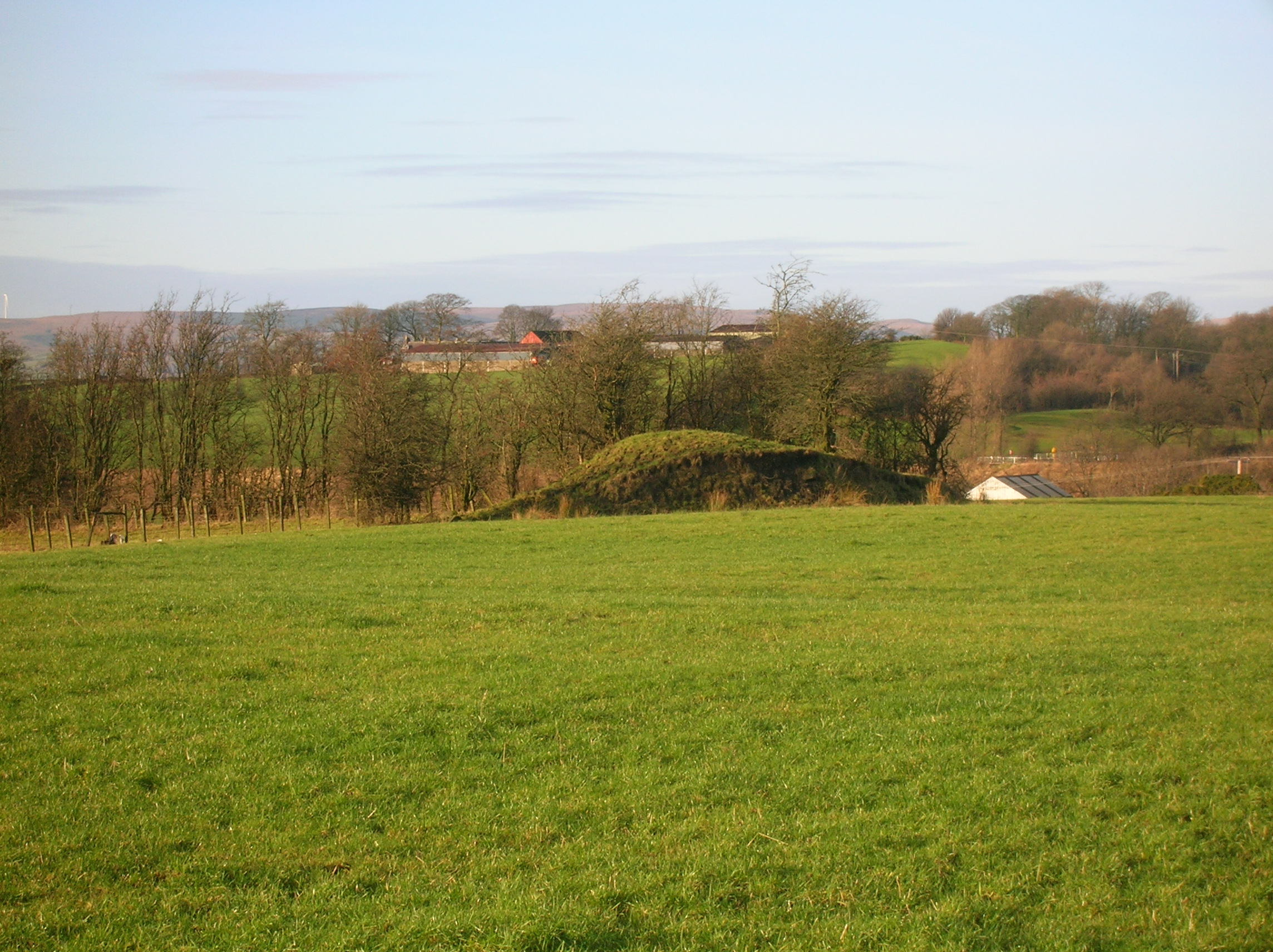 A mound at Greenhills, Barrmill, North Ayrshire, Scotland.